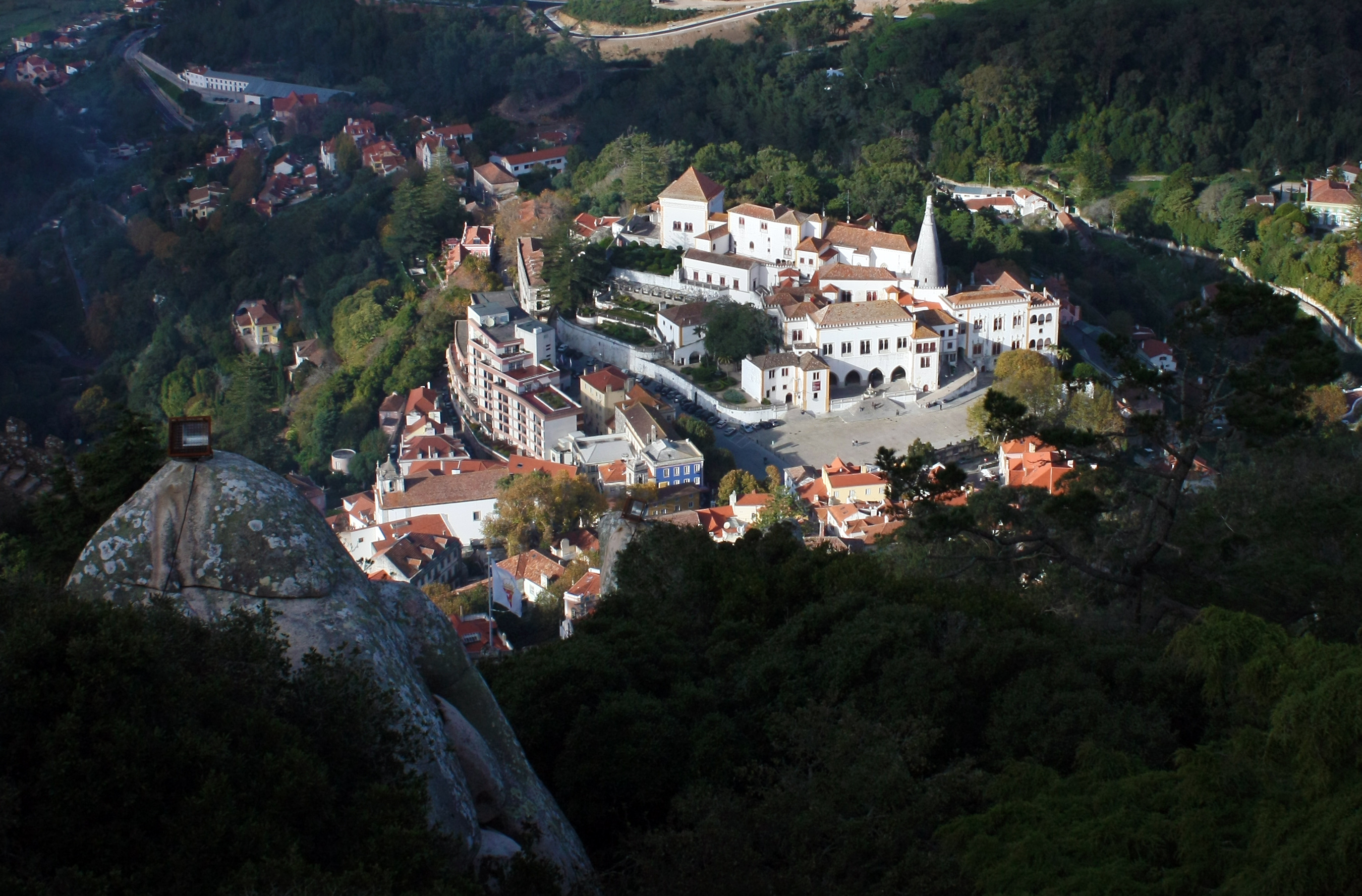 Town center of Sinta incl. Sintra National Palace